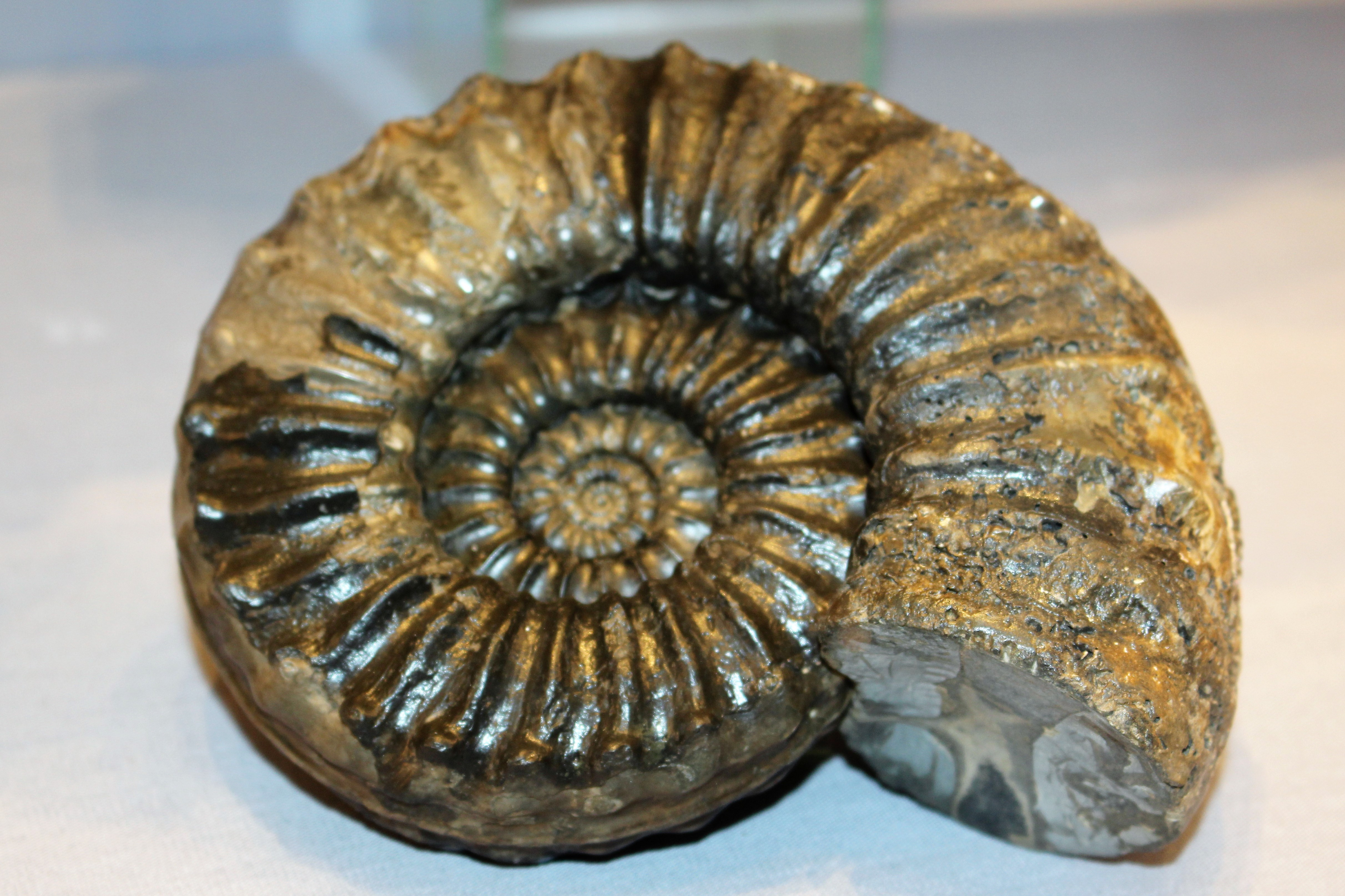 Euagassiceras resupinatum in the Rotunda Museum, Scarborough, England.